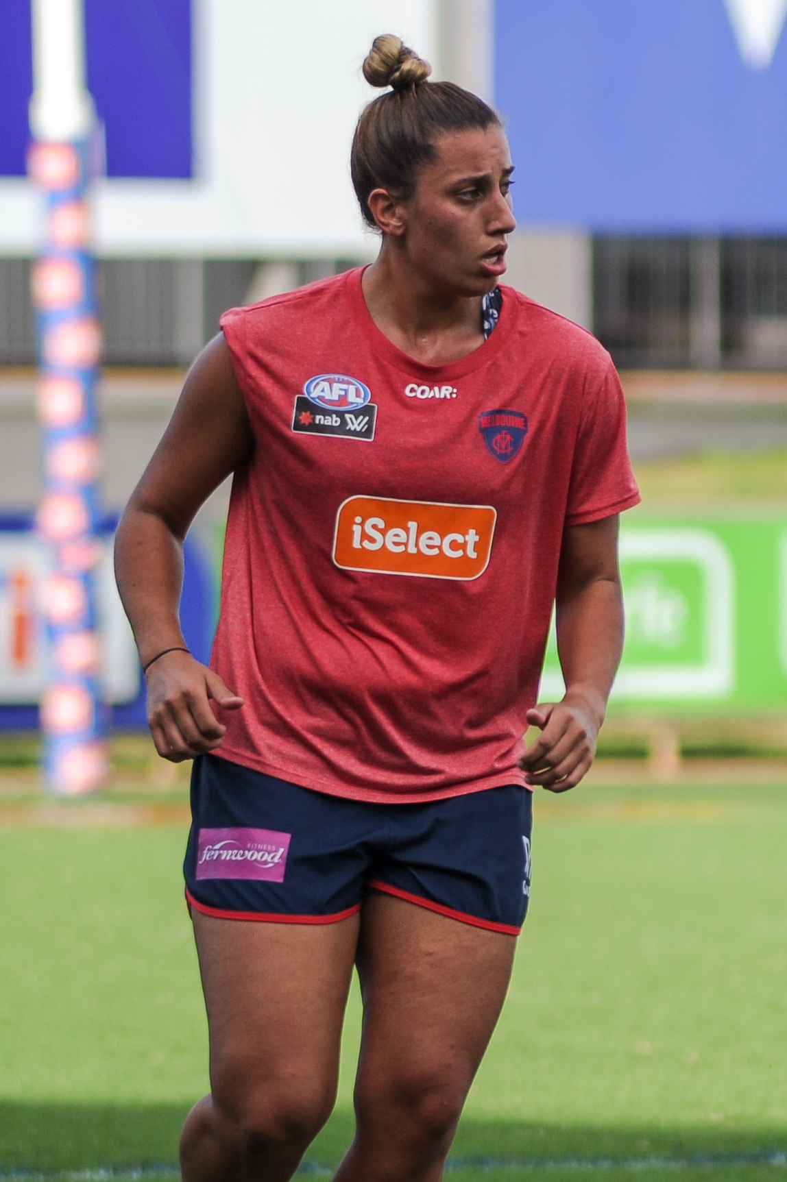 Alyssa Mifsud warming up prior to the AFL Women's round six match between Adelaide and Melbourne on 11 March 2017 at TIO Stadium in Darwin, Northern Territory